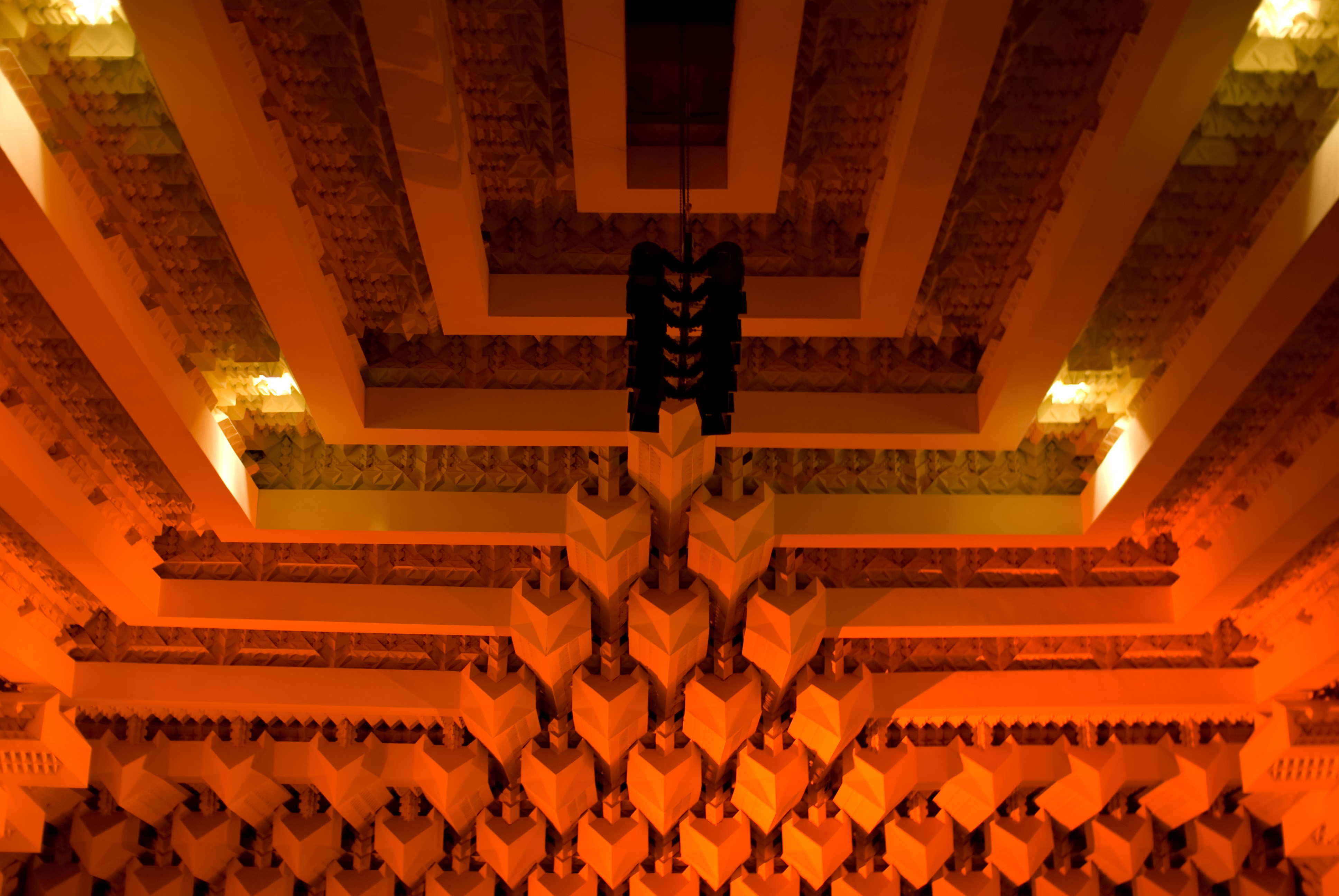 Detail of the ceiling of the Capitol Theatre, Melbourne, showing the portion directly above the screen. Only four of the many built-in ceiling lights are turned on, the primary lighting is an orange floodlight on the theatre floor at house left.